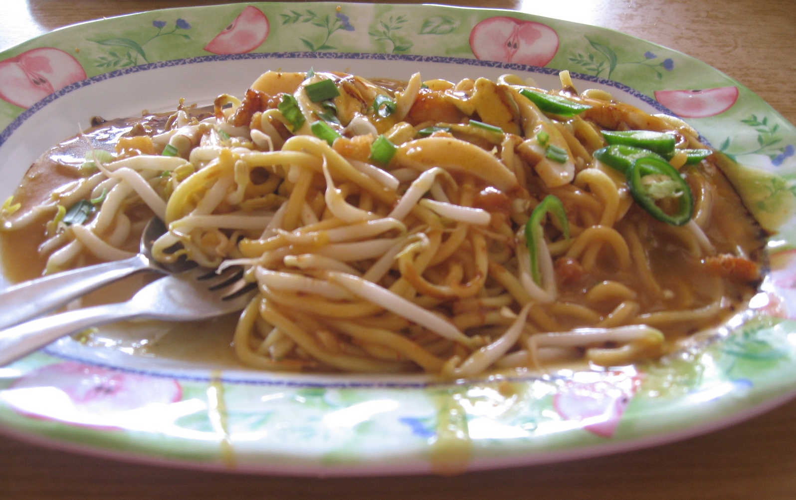 Mee rebus.